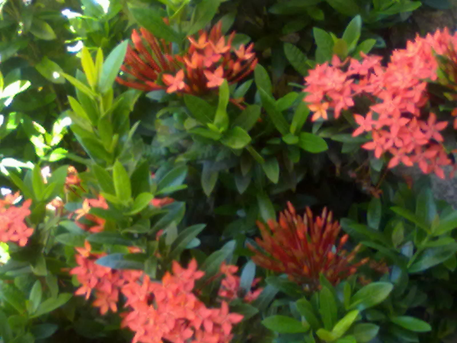 Red flowers